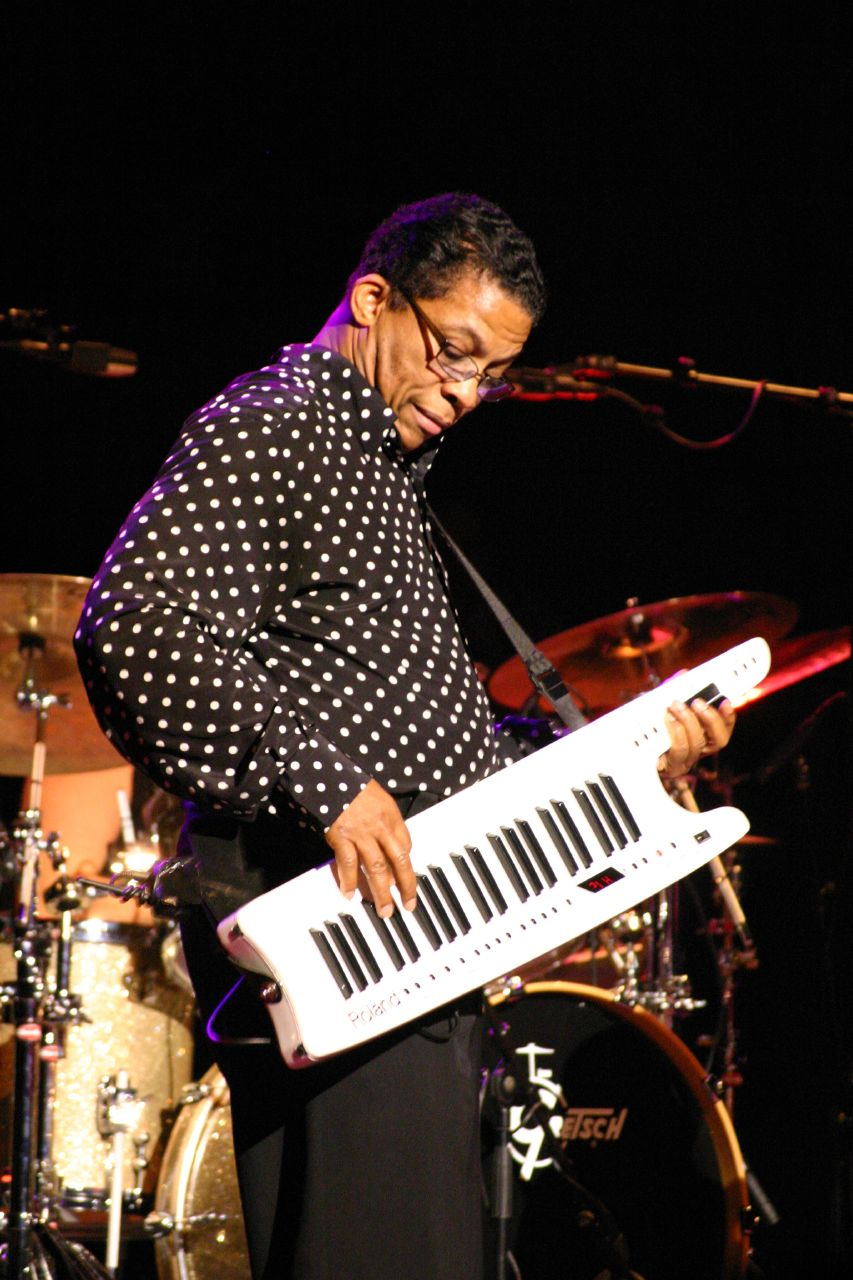 Herbie Hancock performing in Vredenburg, Utrecht, Netherlands 2006